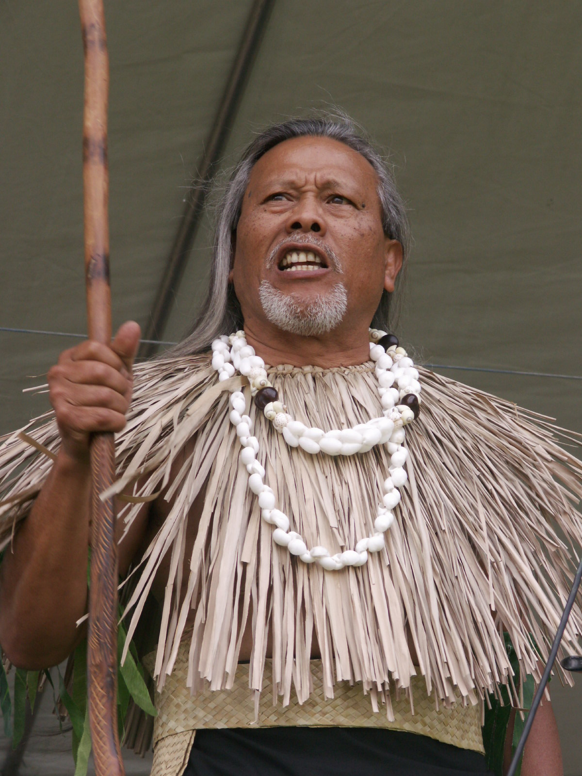 Kutturan Chamoru performer at the PICC in Harbor City